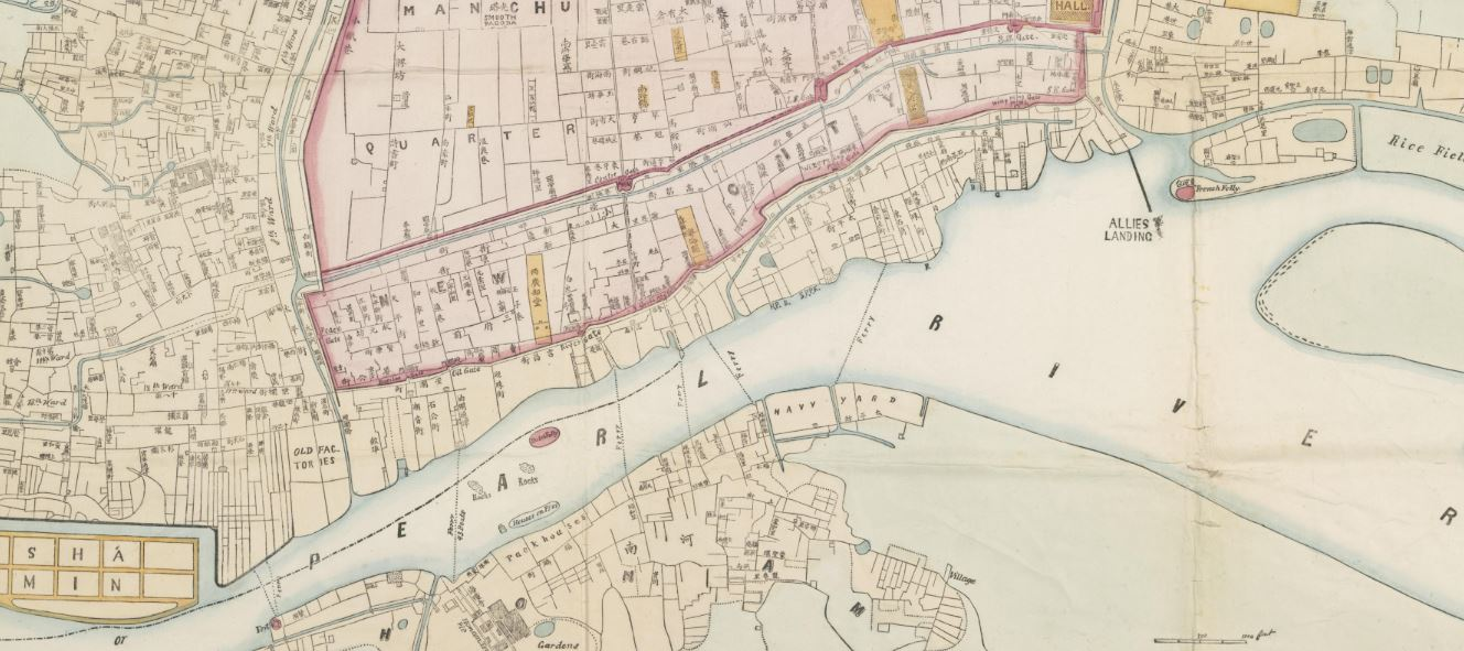 Zoom on Canton extracted from "Map of the City and Entire Suburbs of Canton in 1860 by Rev. D. Vrooman"